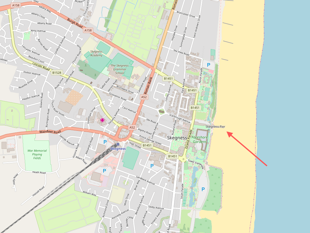 Open Street Map showing location of Skegness Pier